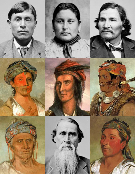 Collage of Shawnee people collected from various public domain sources.